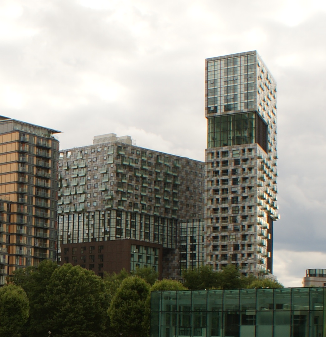 View of apartments in the Canary Quarter development from Millwall Inner Dock. Looking south-southwest.